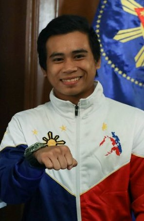 President Rodrigo Roa Duterte flashes his signature pose with (from left) boxing coach Joven Jimenez, International Boxing Federation (IBF) junior bantamweight champion Jerwin Ancajas, and World Boxing Organization (WBO) international minimum weight champion Mark Anthony Barriga who paid a courtesy call on the President in Malacañan Palace on December 5, 2017. REY BANIQUET/PRESIDENTIAL PHOTO